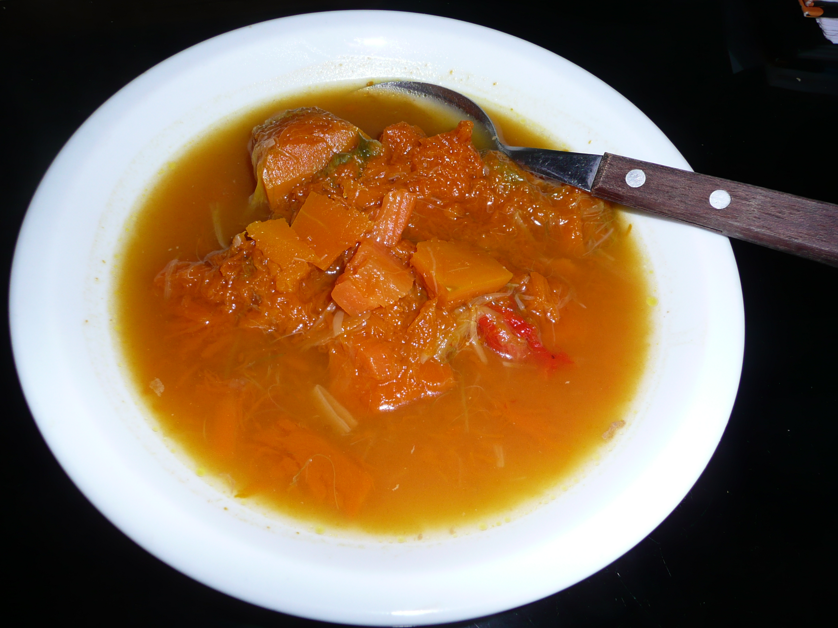 Cucurbita maxima commercial seed name "Zapallo Plomo" semillería Costanzi - 2014 08 01 - squash A (harvested 2014 03 31). Soup. Fortín Olavarría, partido de Rivadavia, provincia de Buenos Aires, Argentina.